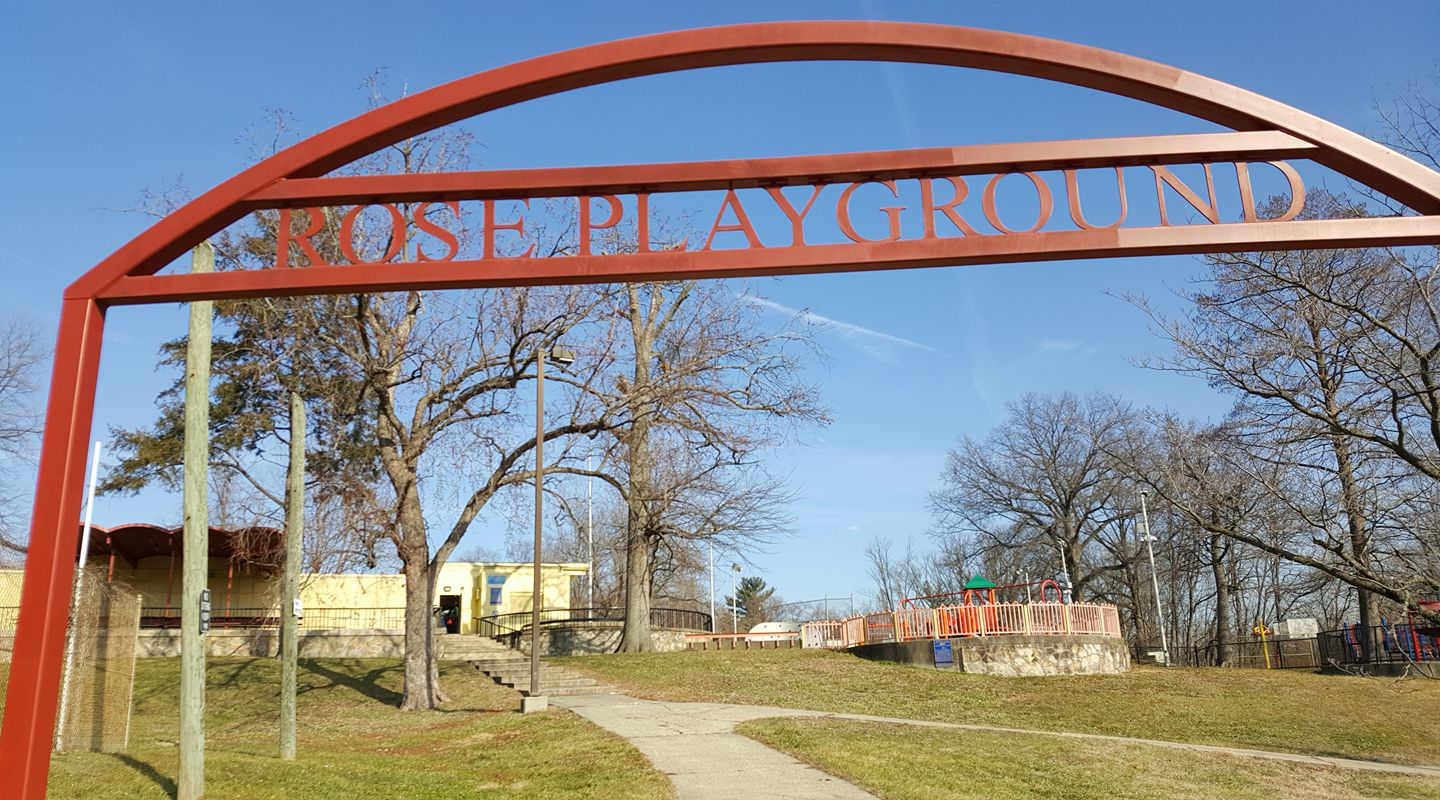 Parks in Overbrook Park